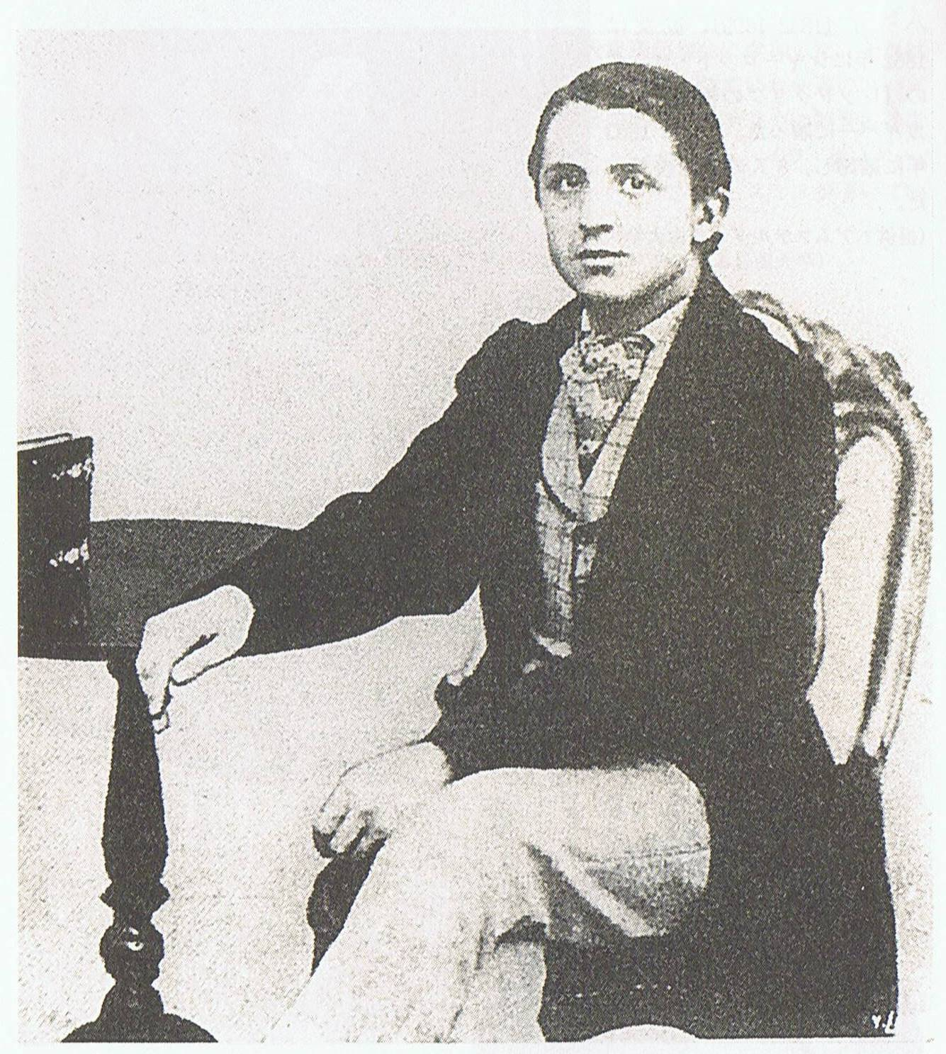 Abraham Kuyper